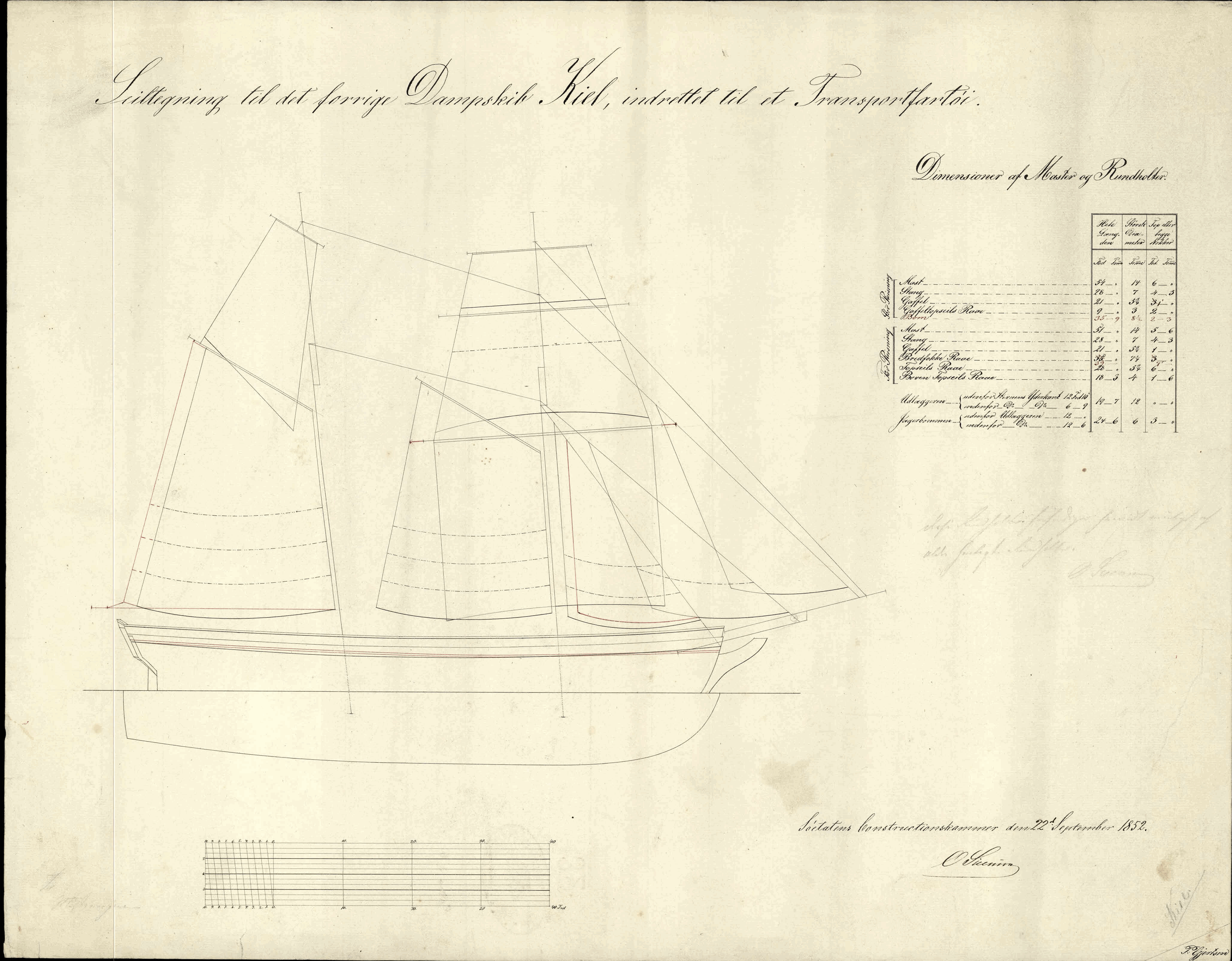 The Royal Danish paddlesteamer Kiel - formerly the British Eagle - was converted to a sailing ship in 1853. These are the plans for the conversion, drawn in September 22, 1852 at Orlogsværftet (Danish Naval Shipyard) in Copenhagen.